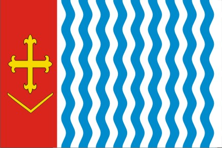 Flag of Ramirás